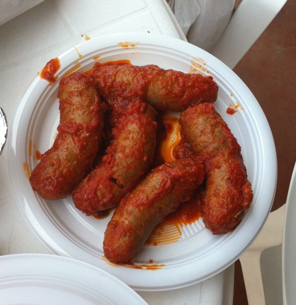 Tomato Sauce sausage